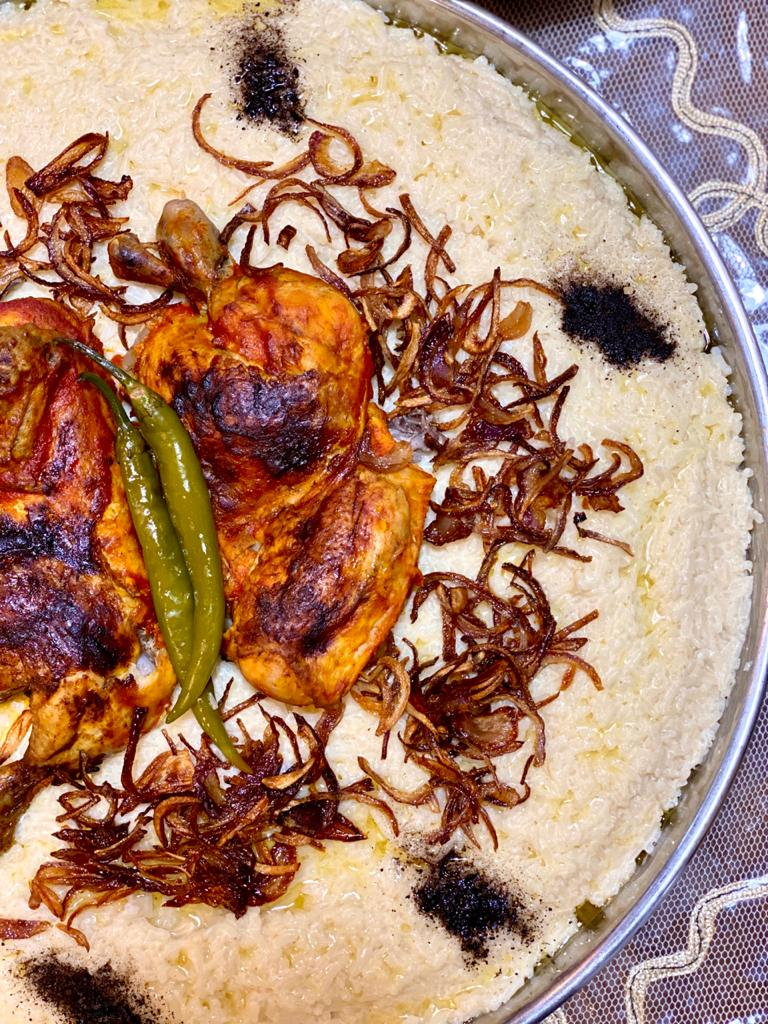 A picture of Chicken Saleeg decorated with some fried onions and wild ghee